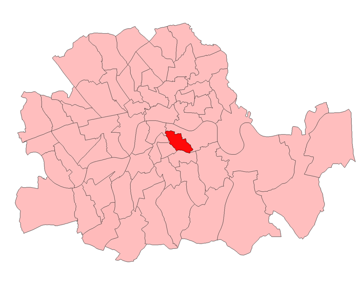 A map of Bermondsey West constituency within the London County Council area.